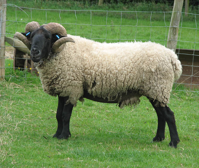 Gressenhall Farm - a Norfolk Horn wether